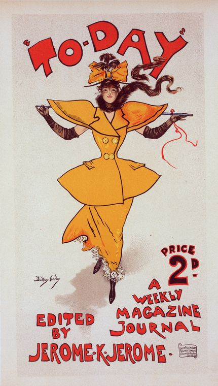 Affiche anglaise pour le journal "To Day", edited by Jerome K. Jerome